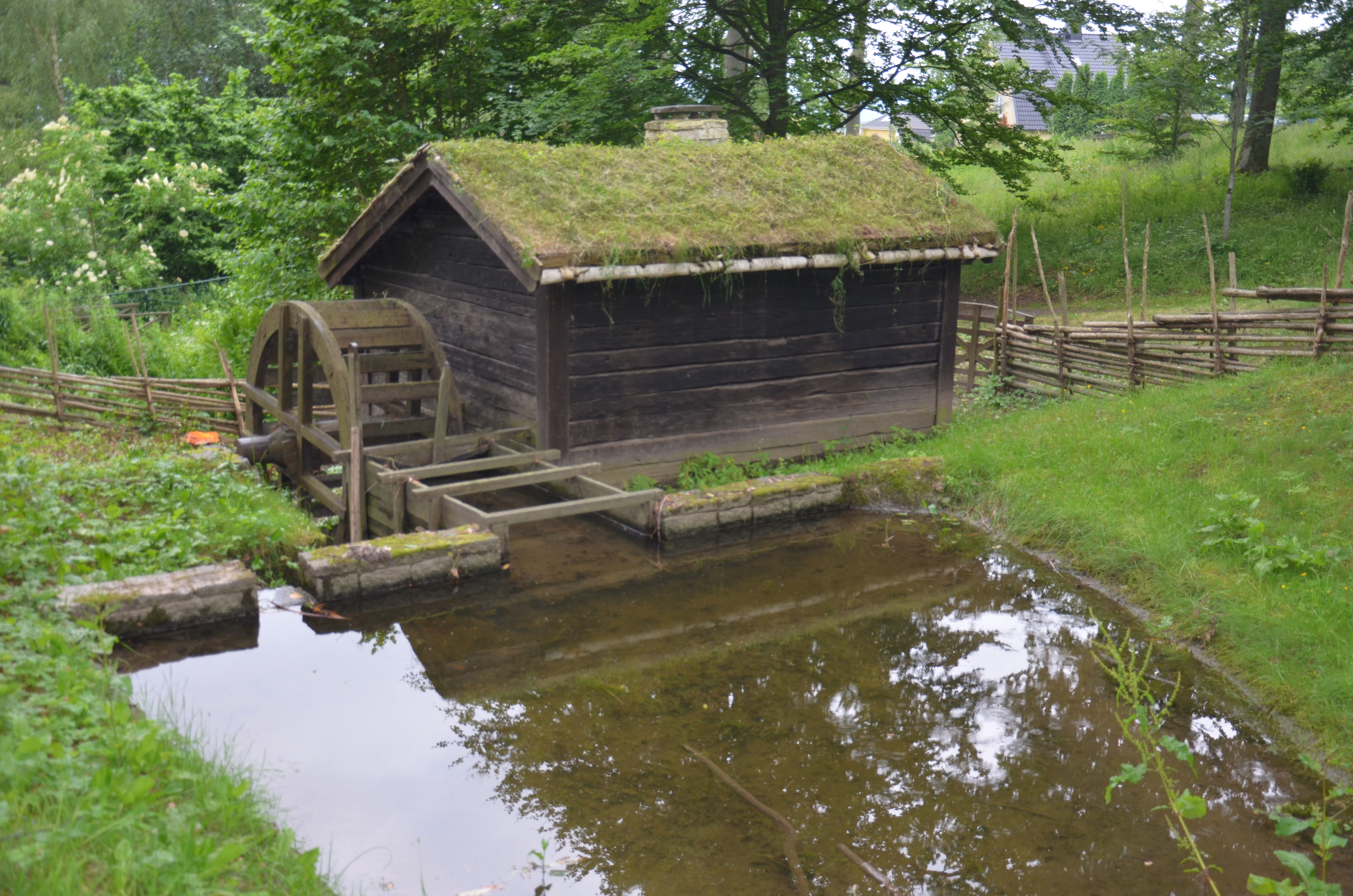 Jönköpings stadspark tråddrageriet